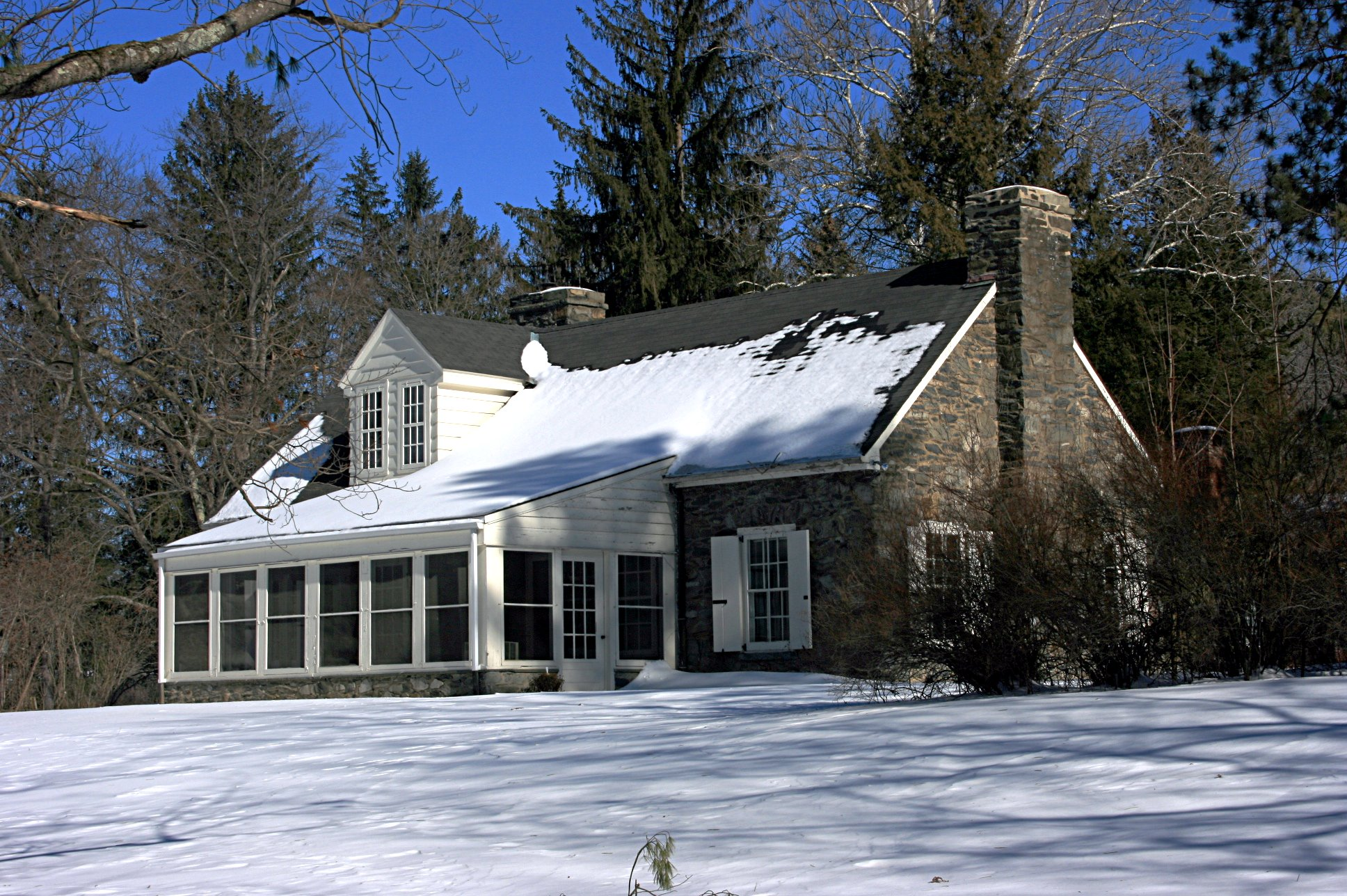 The "Stone Cottage" — a cottage on the Roosevelt's Val-Kill estate. In the Eleanor Roosevelt National Historic Site, Hyde Park, New York.